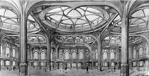 Design for a large covered space by Joseph-Eugène-Anatole de Baudot (14 October 1834 - 28 February 1915), using reinforced concrete pillars and arches. Published in L'Architecture, le passe, le present (1916)